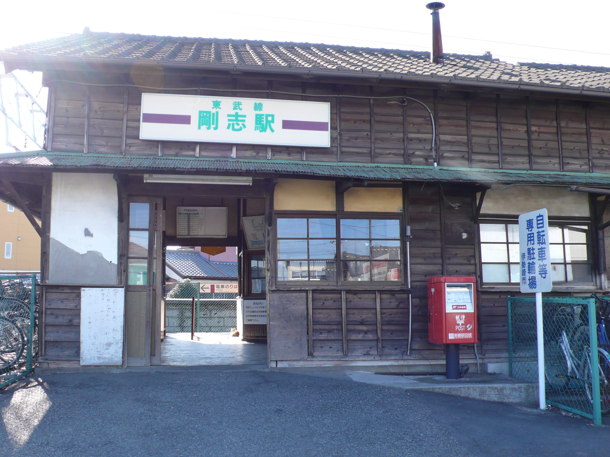 Tobu Isesaki Line Goshi Station